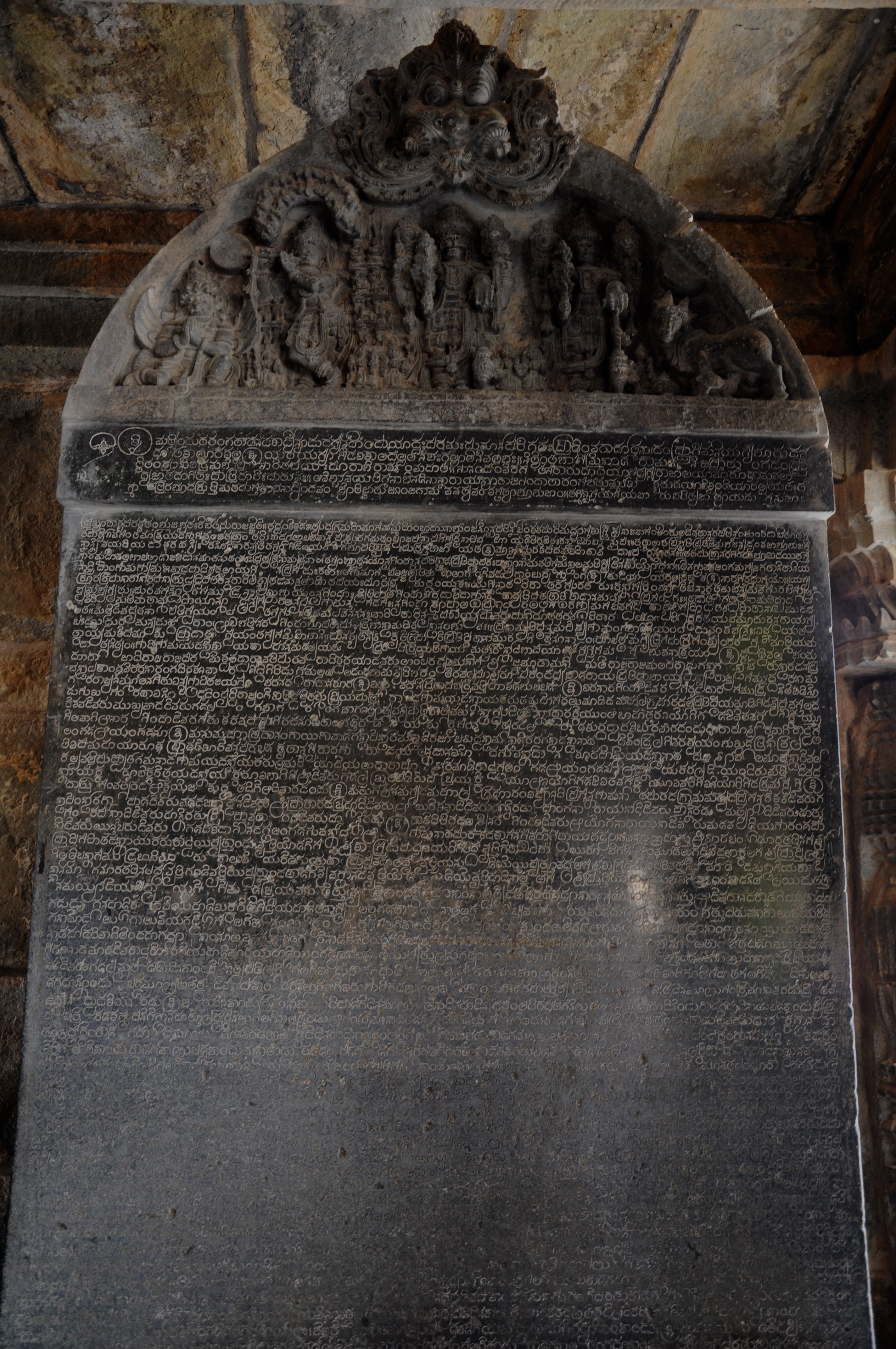 Old Kannada inscription of 1270 A.D. at the Keshava Temple in Somanathapura, Karnataka state, India [Mysore Inscriptions, B.L.Rice (1879), p.323, xxxv, Mysore Government Press]